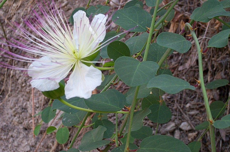 Caper plant: Capparis spinosa. Growing out of a rock wall above Alsancak